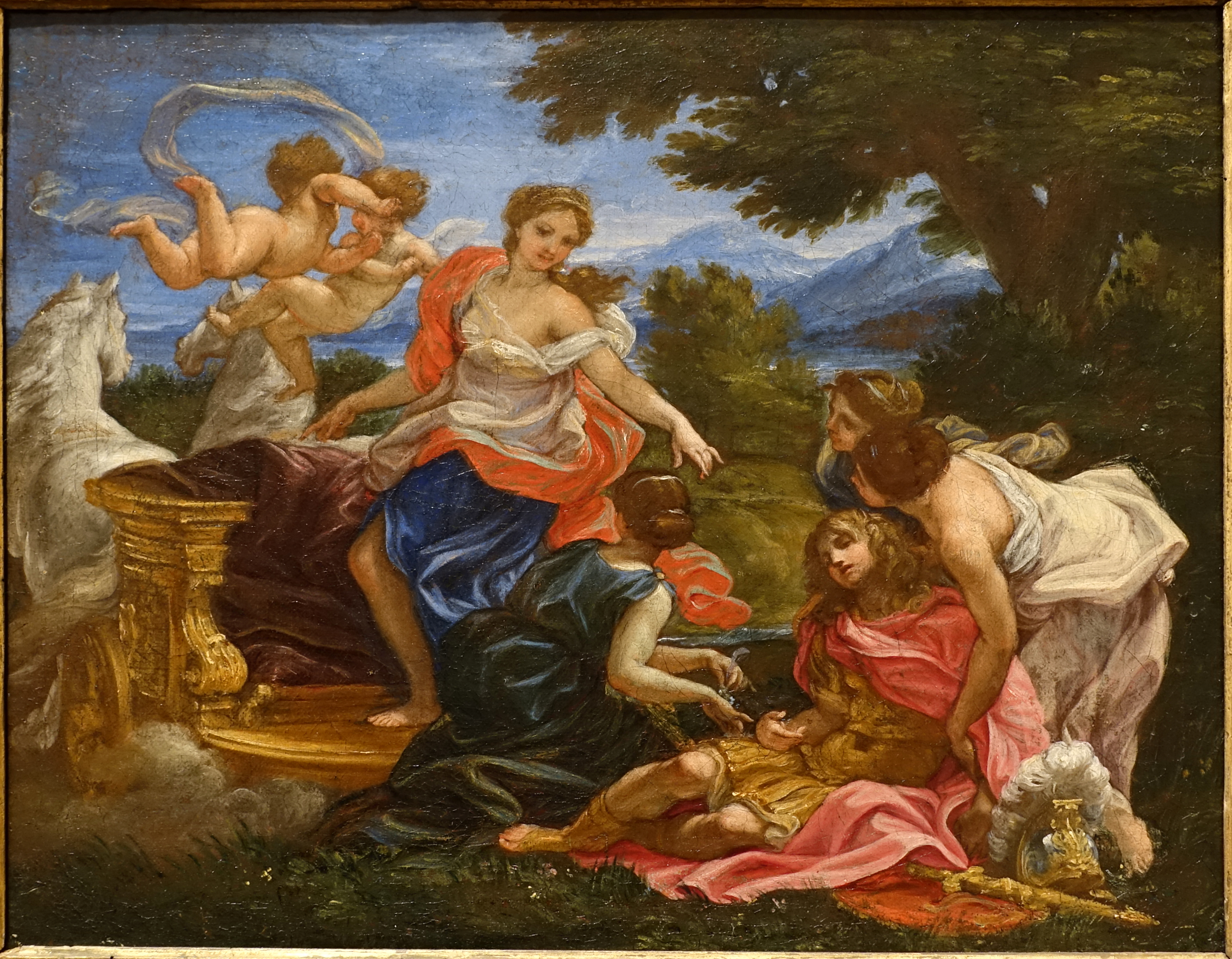 Exhibit in the Blanton Museum of Art - Austin, Texas, USA. This work is old enough so that it is in the public domain.